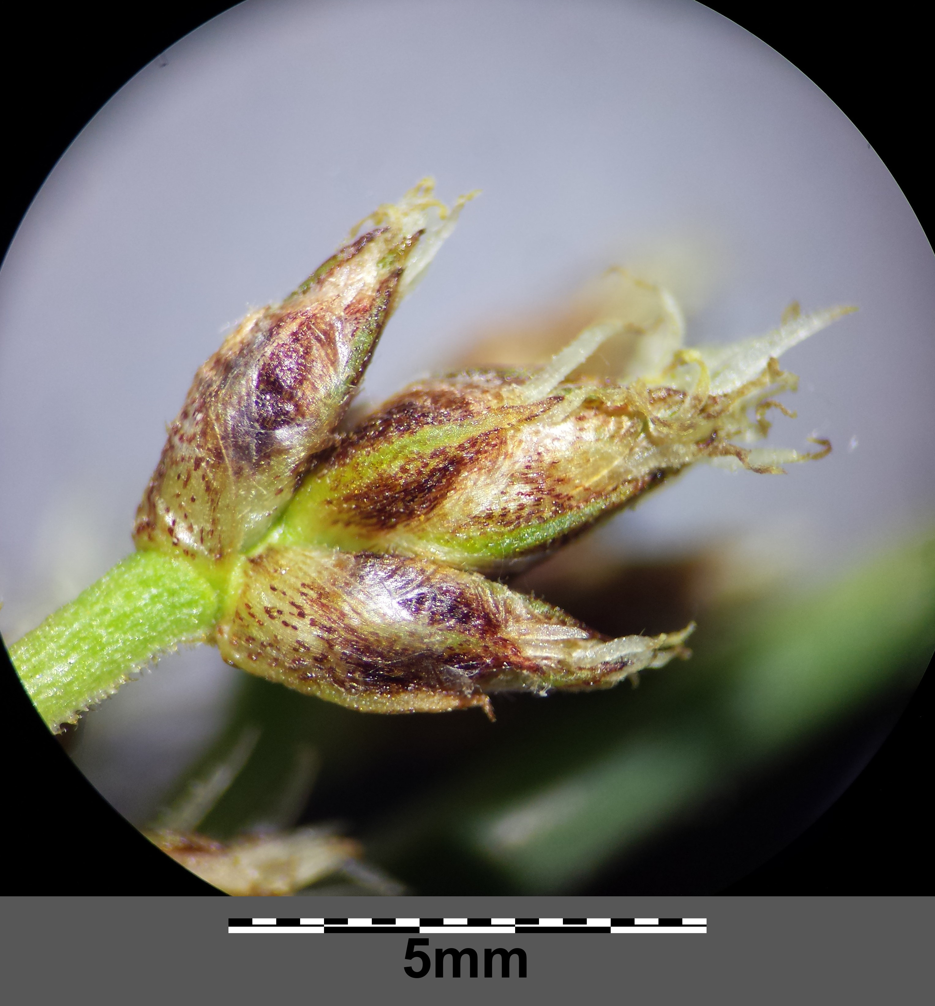 Inflorescence Taxonym: Schoenoplectus tabernaemontani ss Fischer et al. EfÖLS 2008 ISBN 978-3-85474-187-9 Location: Laimergrube in Stammersdorf, Vienna-Floridsdorf - ca. 160 m a.s.l. Habitat: muddy ground